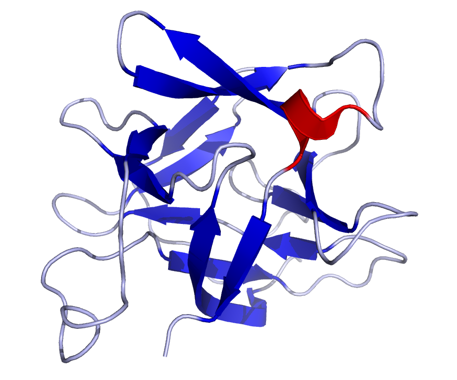 Solution structure of IL-18 as published in the Protein Data Bank (PDB: 1J0S)